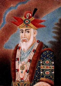 Emperor Farrukhsiyar